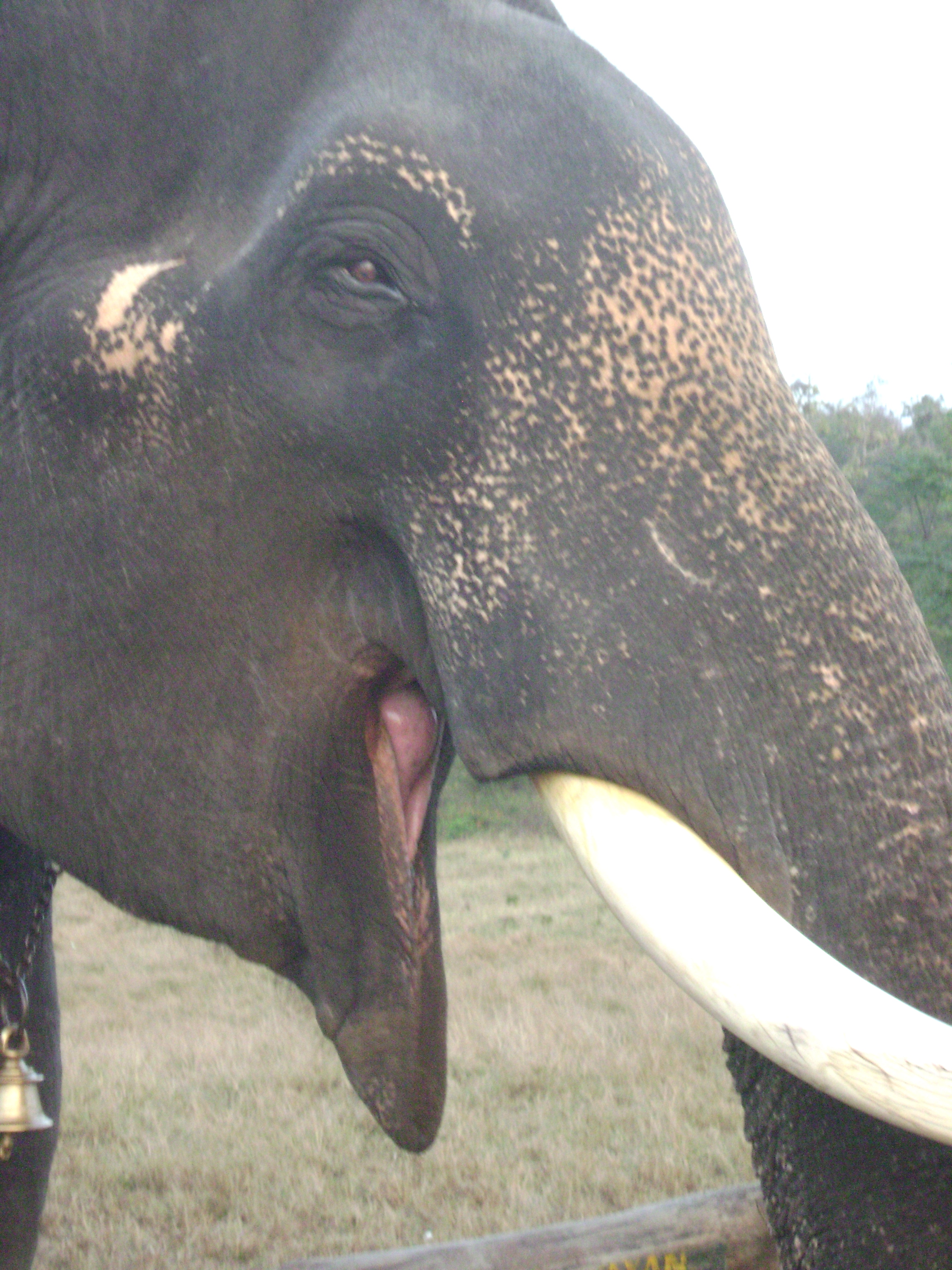 Captive elephant at Mudumalai National Park elephant camp